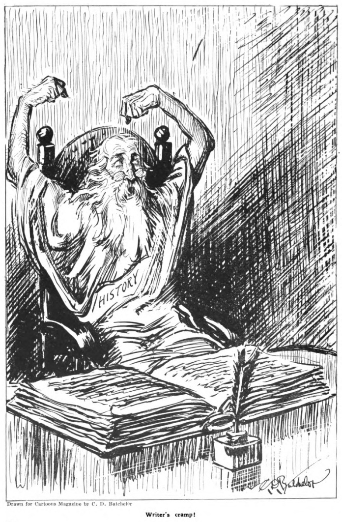 "Writer's cramp!" Cartoon by C. D. Batchelor